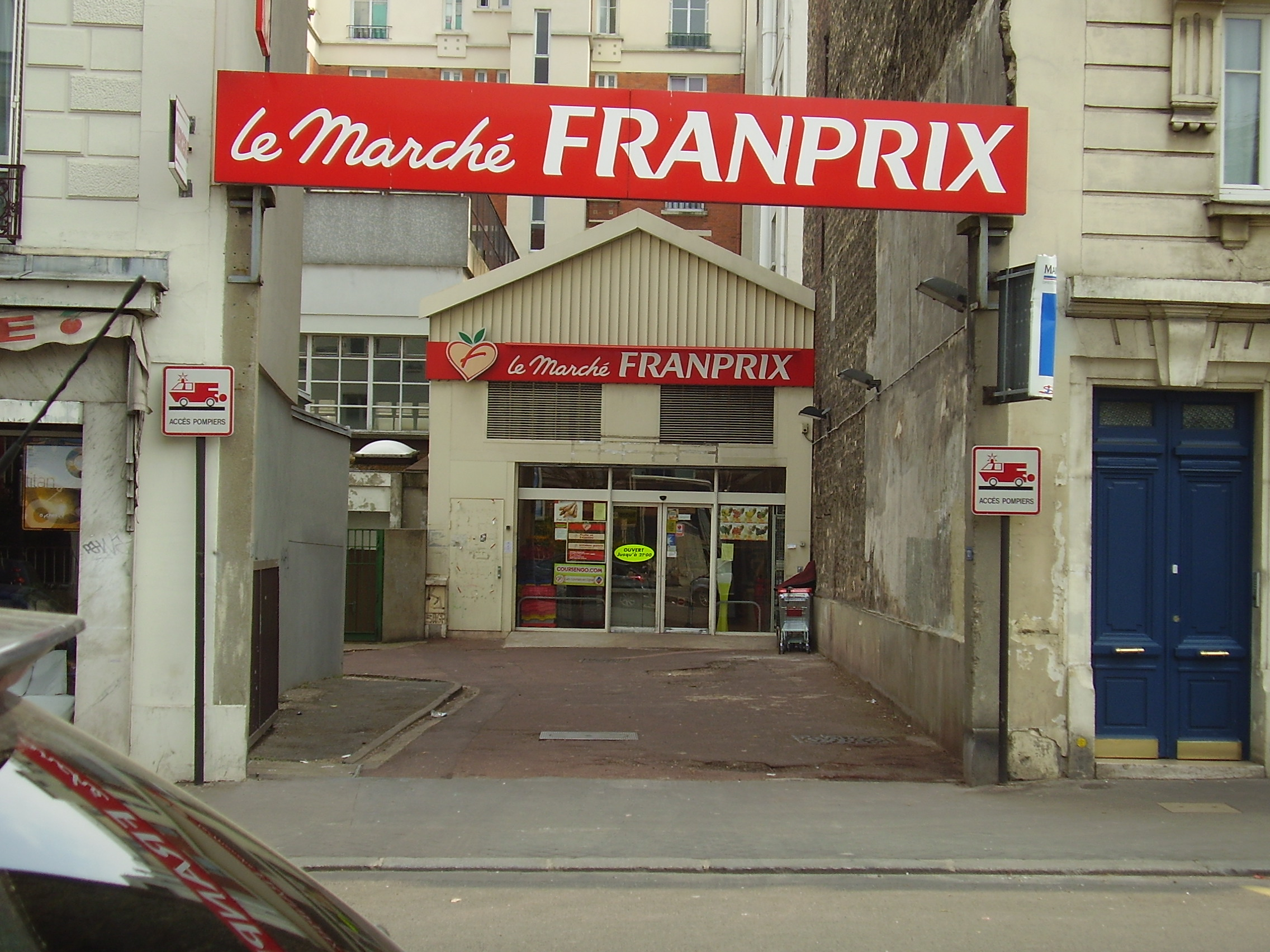 Marché Franprix location - 121 Rue de la Glacière, 13th arrondissement, Paris